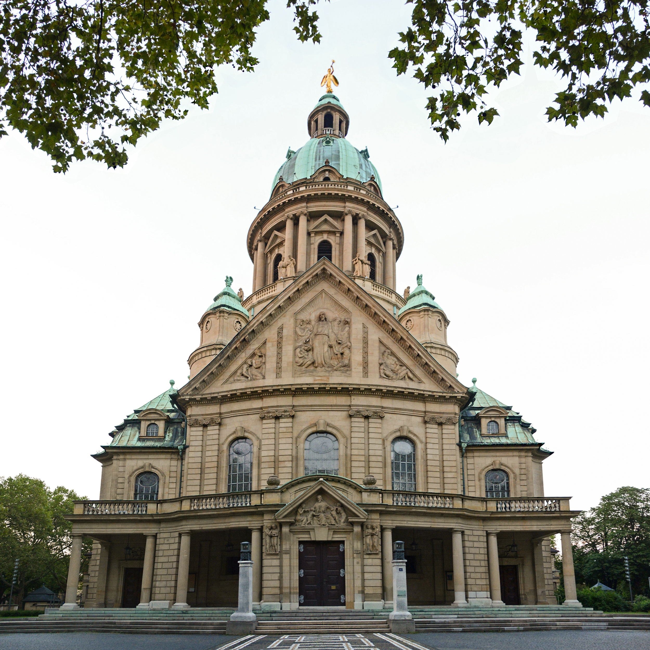 Christ Church, Mannheim, front view from Sophienstr. in the evening